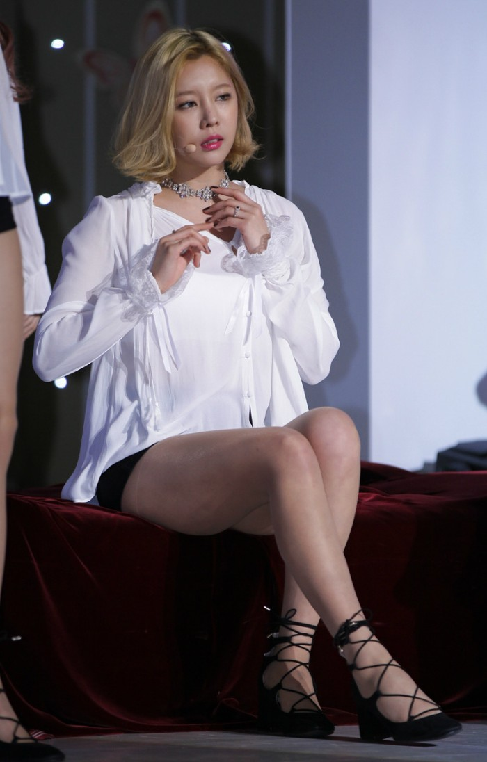 Sungah at Korean Wave Fashion Festival, 28 November 2015